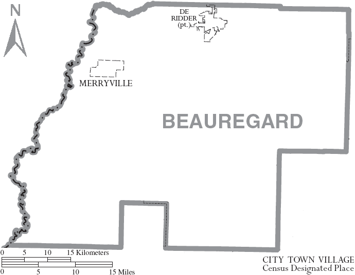 Map of Beauregard Parish, Louisiana, United States with municipal boundaries